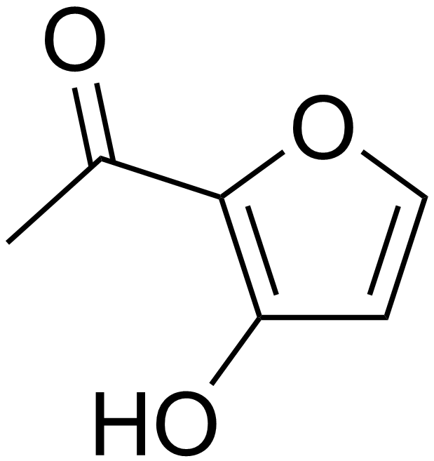 chemical structure of isomaltol